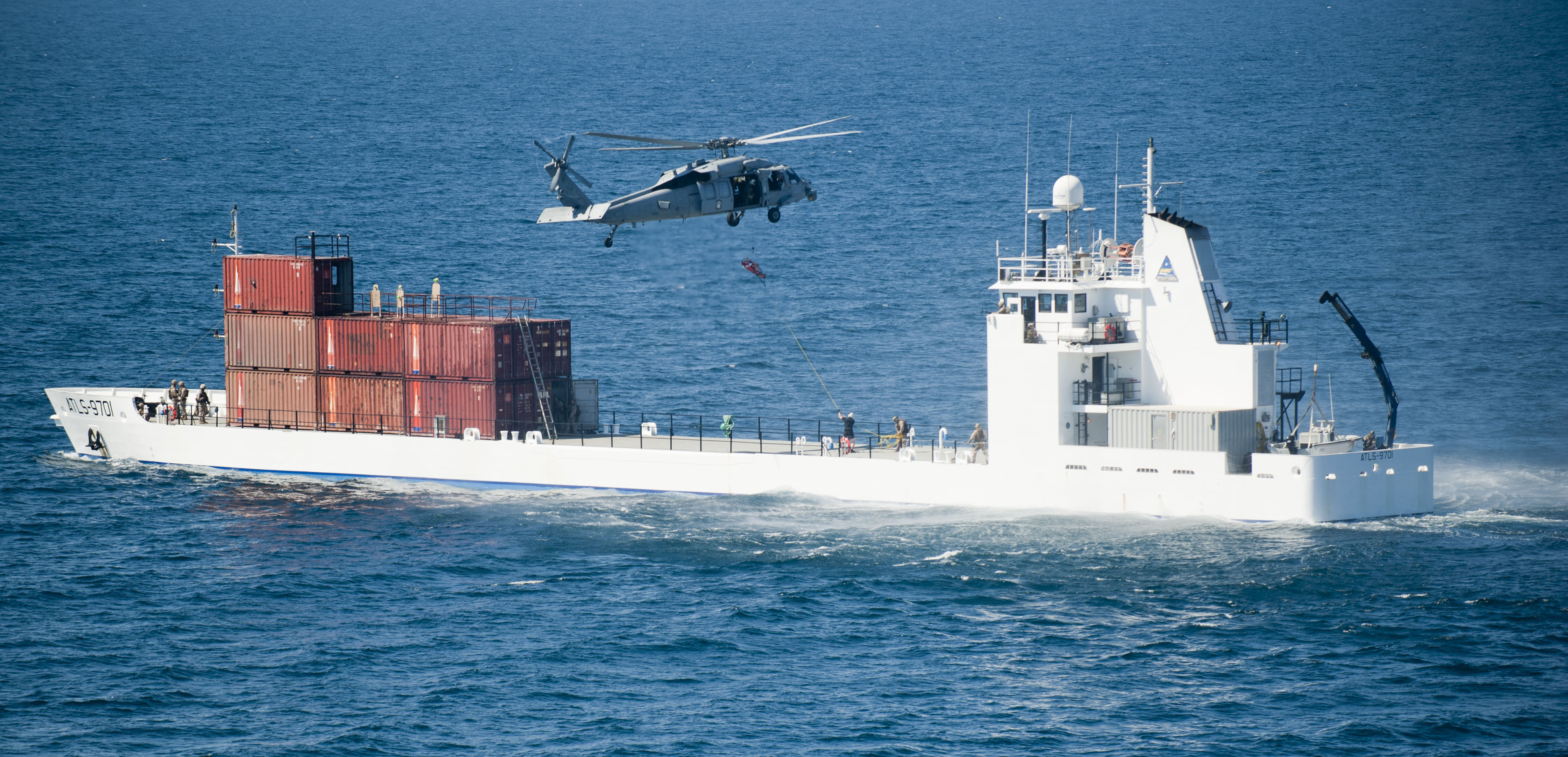 PACIFIC OCEAN (Sept. 7, 2011) Marines assigned to the Maritime Raid Force of the 11th Marine Expeditionary Unit conduct a casualty evacuation from the ATLS 9701 drone launch ship during a training exercise with sailors assigned to the amphibious transport dock ship USS New Orleans (LPD 18). New Orleans and the 11th MEU are conducting pre-deployment work-ups as part of the Makin Island Amphibious Ready Group. (U.S. Navy photo by Mass Communication Specialist 3rd Class Dominique Pineiro/Released). Ship pictured is ATLS-9701, U.S. Navy drone launch auxiliary ship.